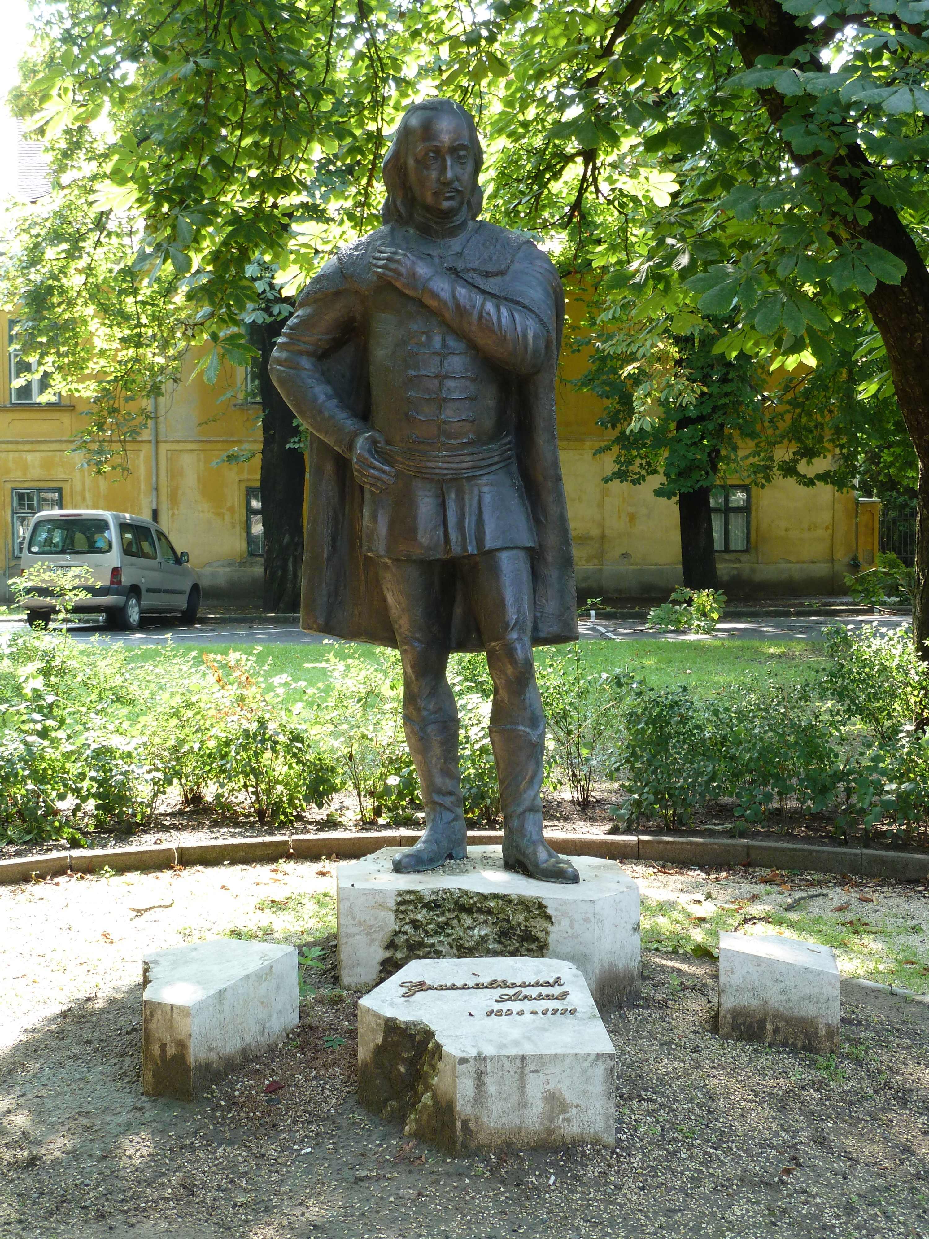 Antal I Grassalkovich statue in Hatvan. Creator: Kálmán Balog, 2006.